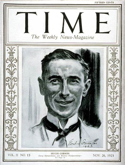 TIME Magazine Cover Featuring Hugh S. Gibson (26 Nov 1923)